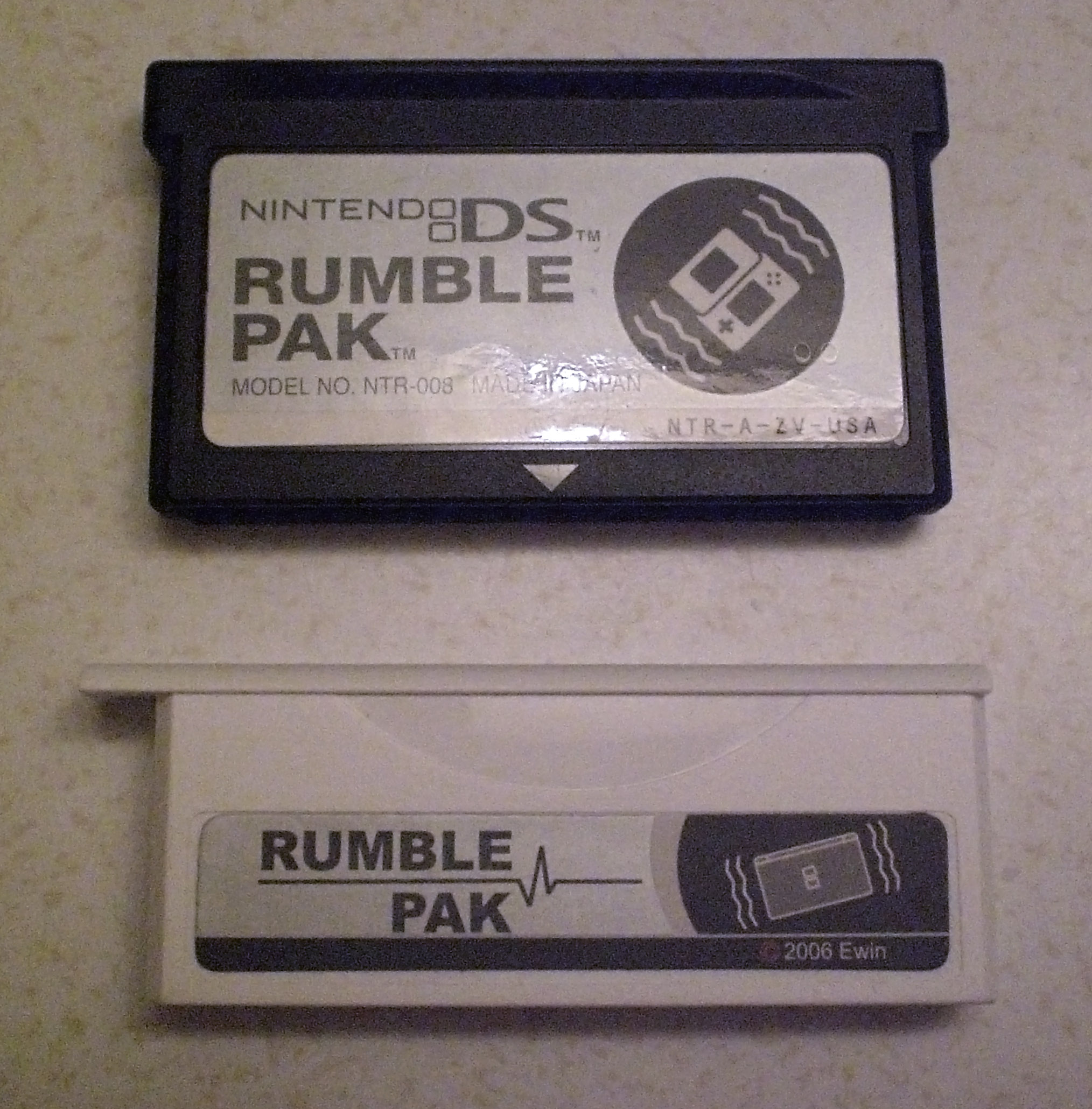 A picture of both the regular Rumble Pak for Nintendo DS as well as the slimmer Rumble Pak for the Nintendo DS Lite.